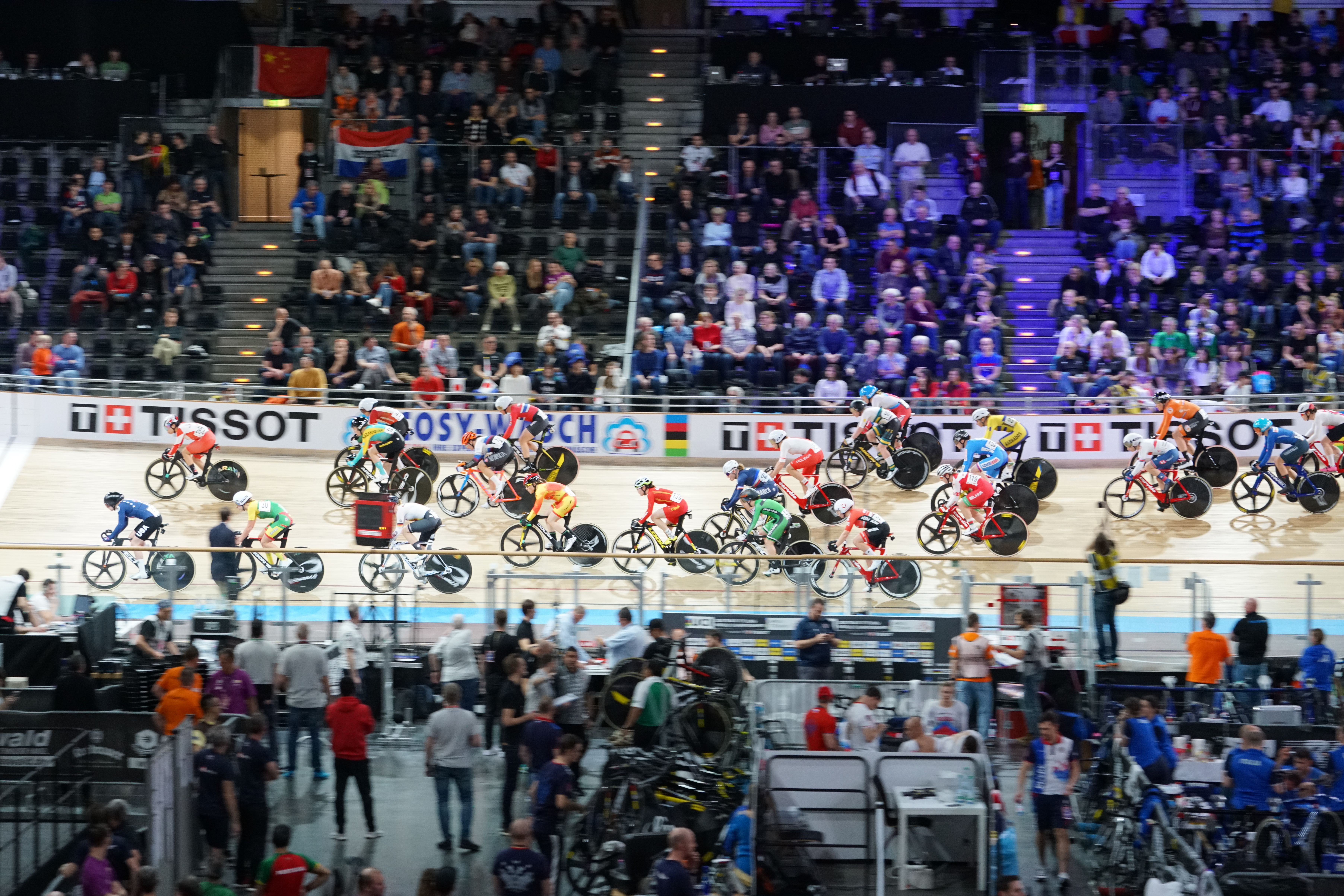 2020 UCI Track Cycling World Championships – Women's Scratch Race